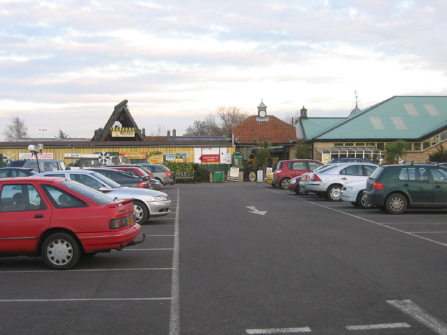 Baytree Nurseries Garden Centre, Weston, Lincs. part of the large garden centre complex and car park looking east.